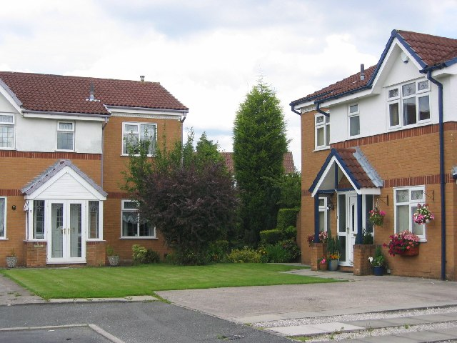 New Houses. Prestwich. They are built on the site of a reservoir(visible on the historic map extract)